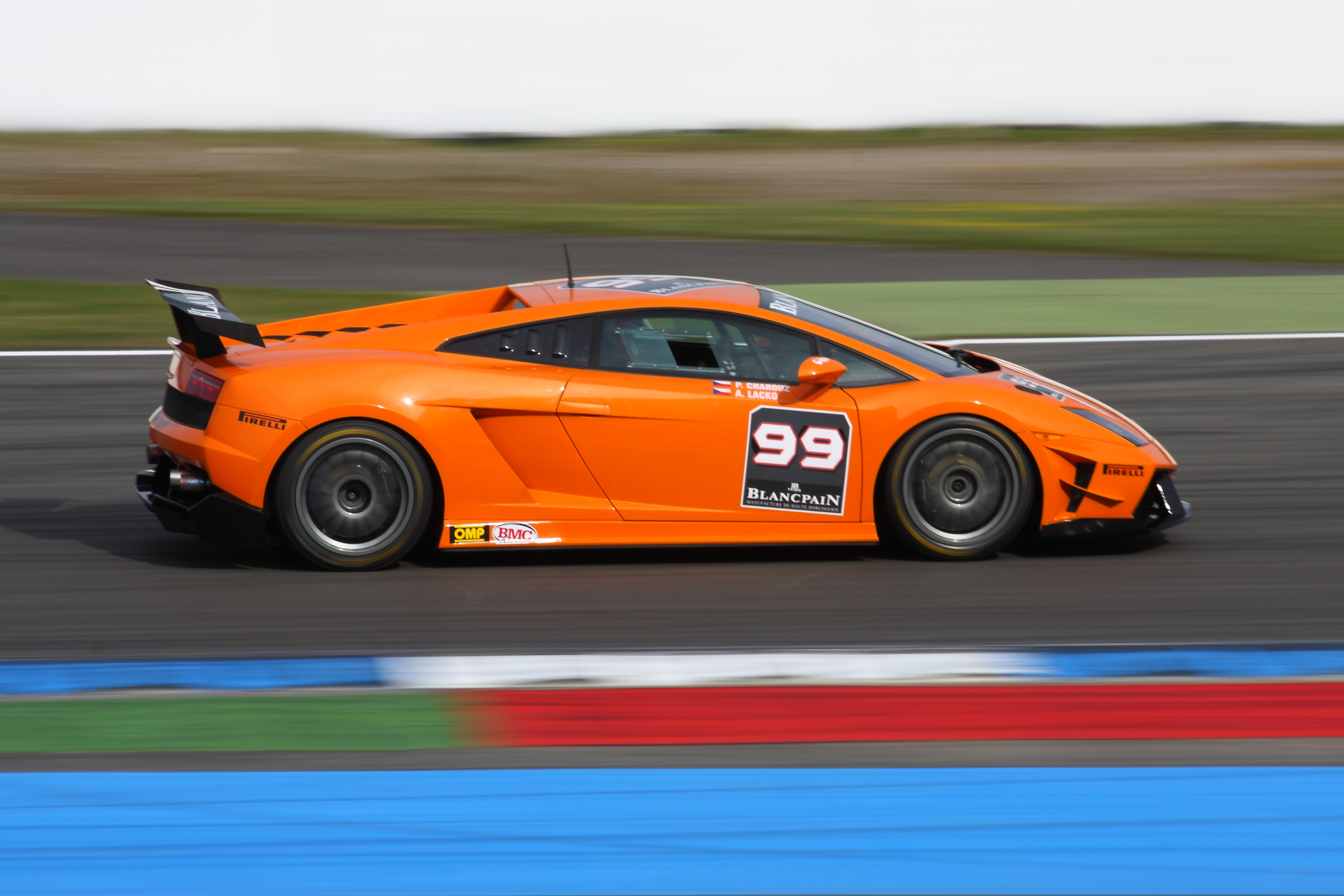 A sports car Lamborghini Gallardo during a race of Lamborghini Super Trofeo. (Drivers: P. Charouz / A. Lacko)